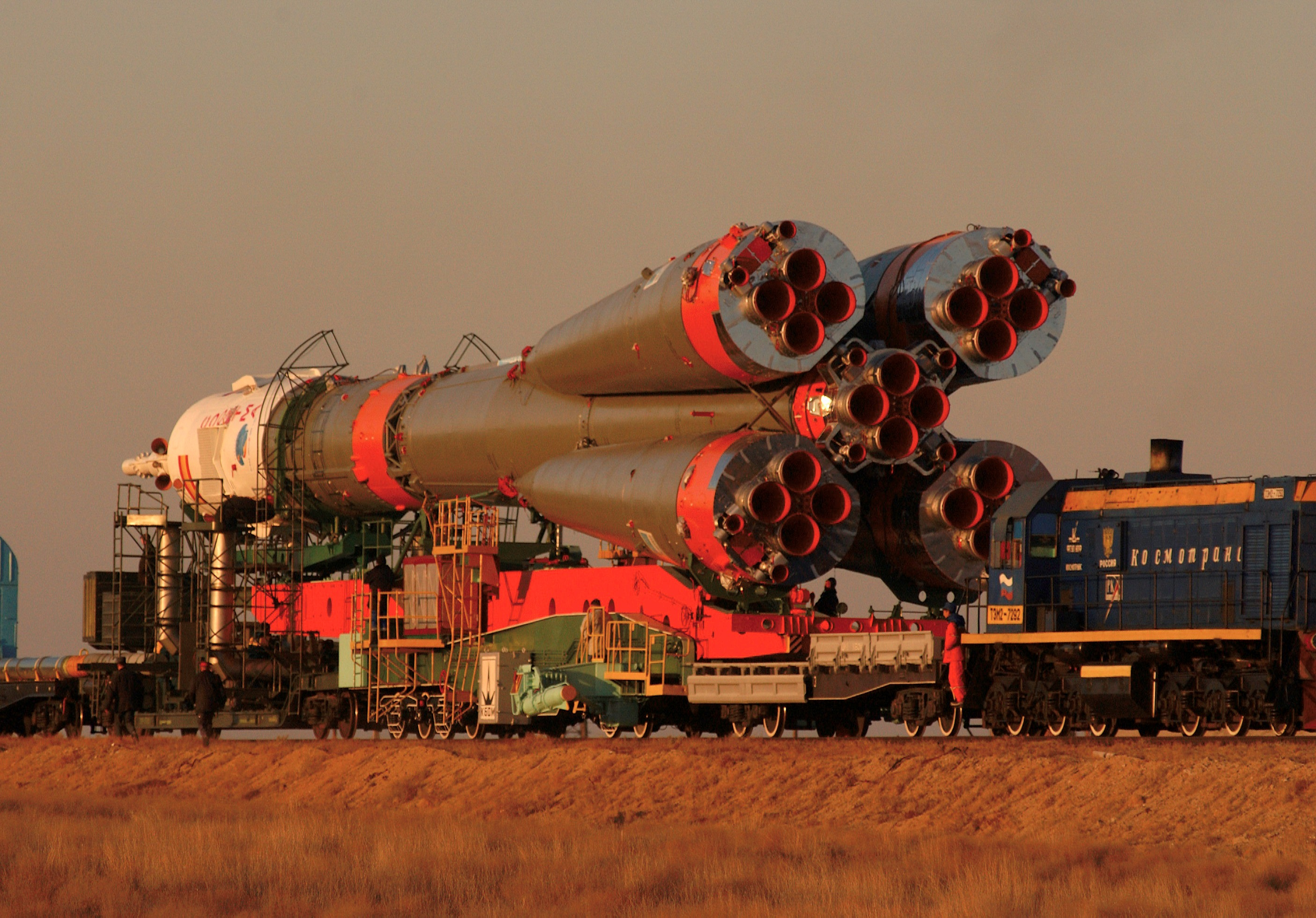 The Soyuz TMA-3 spacecraft and its booster rocket (rear view) is shown on a rail car for transport to the launch pad where it was raised to a vertical launch position at the Baikonur Cosmodrome, Kazakhstan on October 16, 2003. Liftoff occurred on October 18th, transporting a three-man crew to the International Space Station (ISS). Aboard were Michael Foale, Expedition-8 Commander and NASA science officer; Alexander Kaleri, Soyuz Commander and flight engineer, both members of the Expedition-8 crew; and European Space agency (ESA) Astronaut Pedro Duque of Spain.